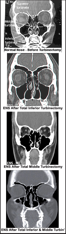 CT pictures describing different types of Empty Nose Syndrome.